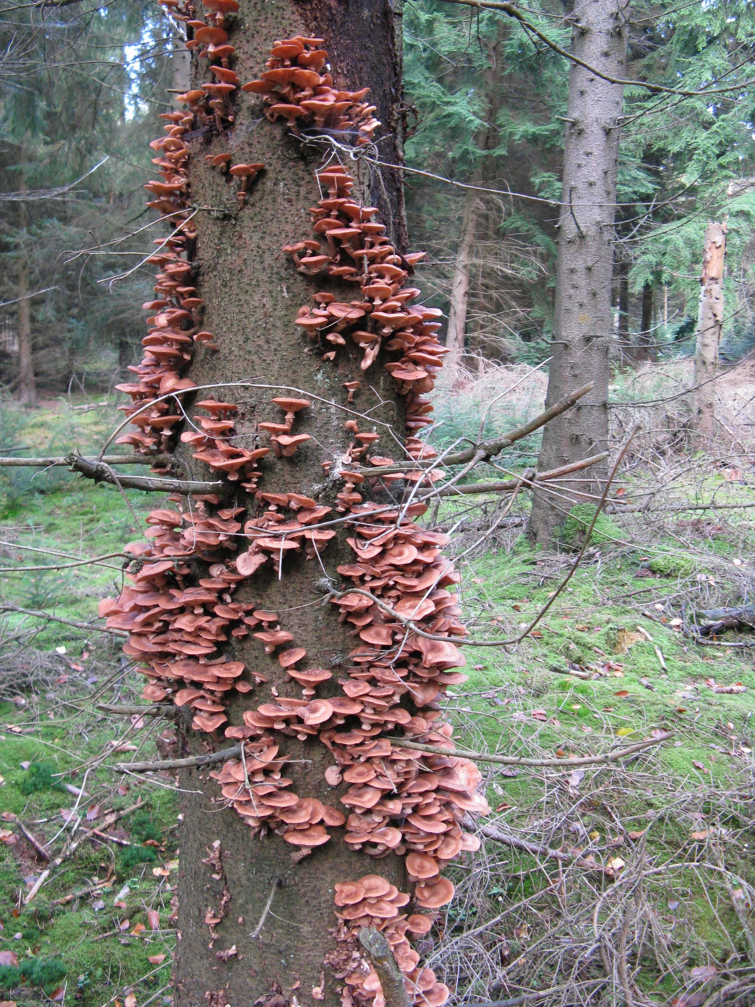 mushrooms